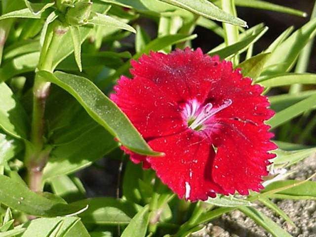 In front of the house on one nice sunny day in the spring. Albany, Ore., 2002.